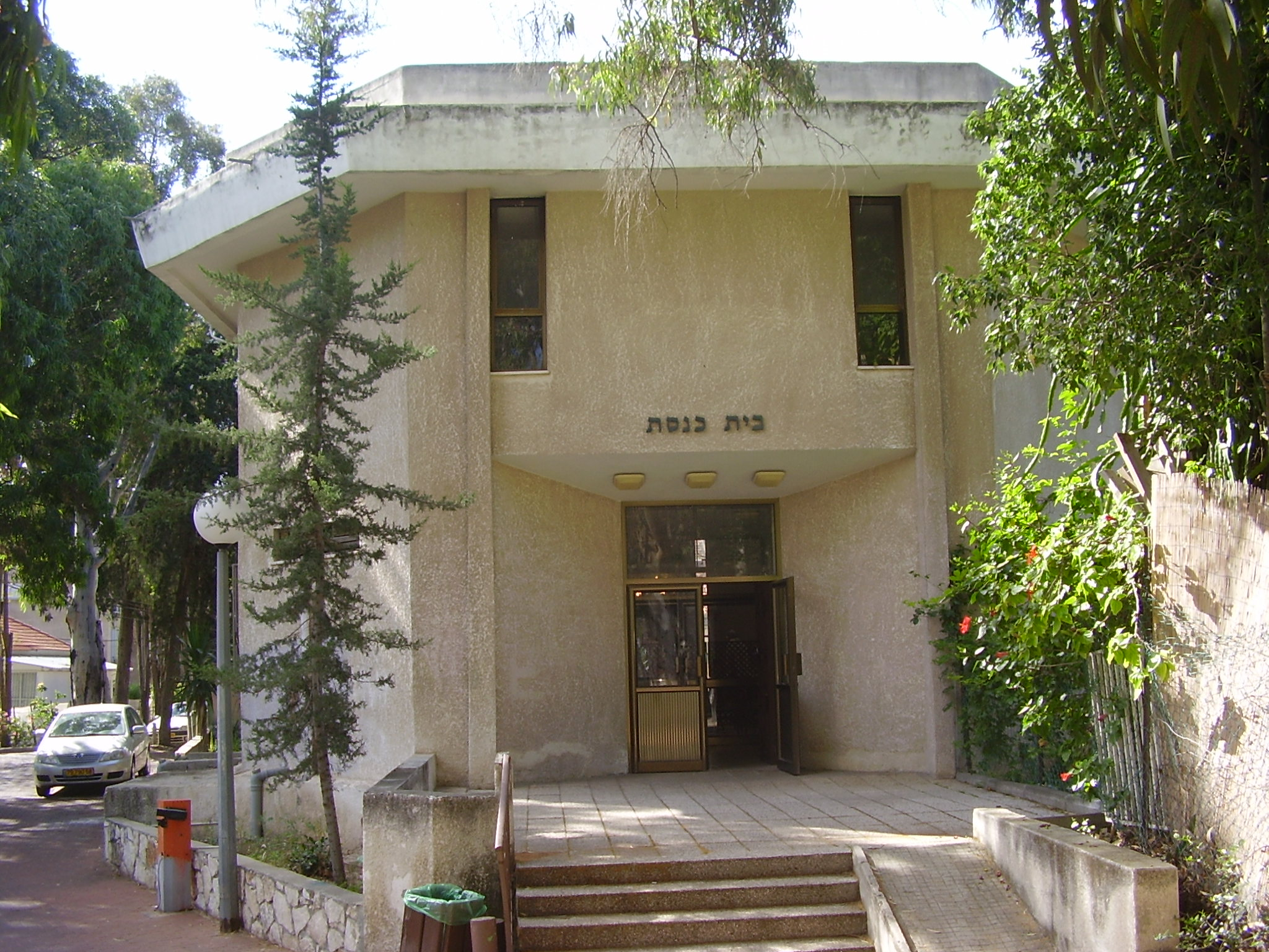 the italian synagogue in gan shaul,ramat gan, israel